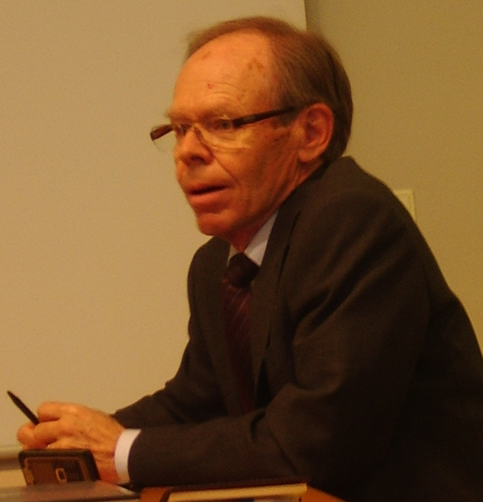 Jaakko Kalela is a Finnish diplomat.